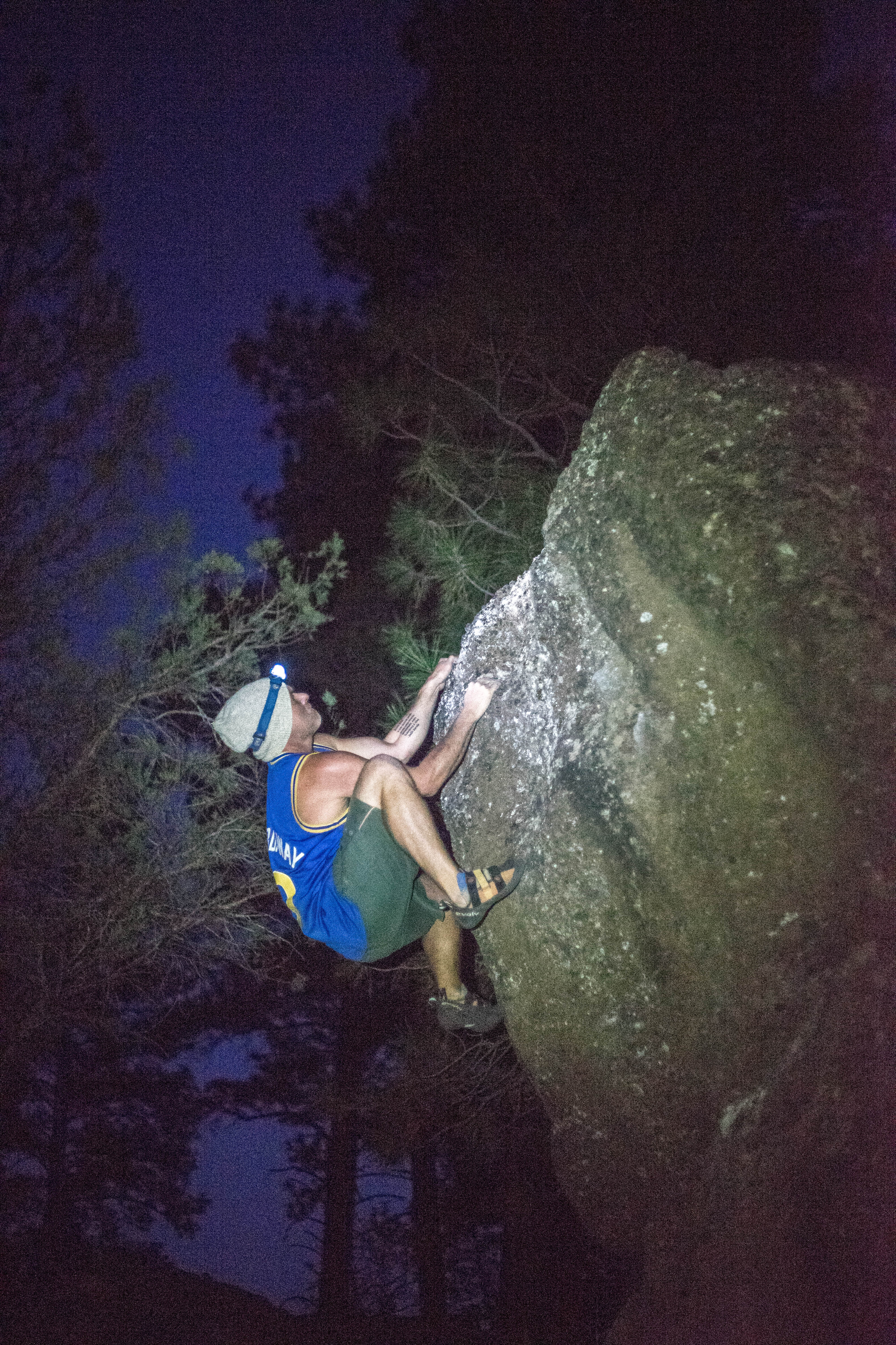 Peter Brown Hoffmeister and Jackson Skortman night-bouldering and taking pictures. This shot is of Hoffmeister running laps on his own route, "The Millennium Falcon," a V3+ at The Sisters Boulders.